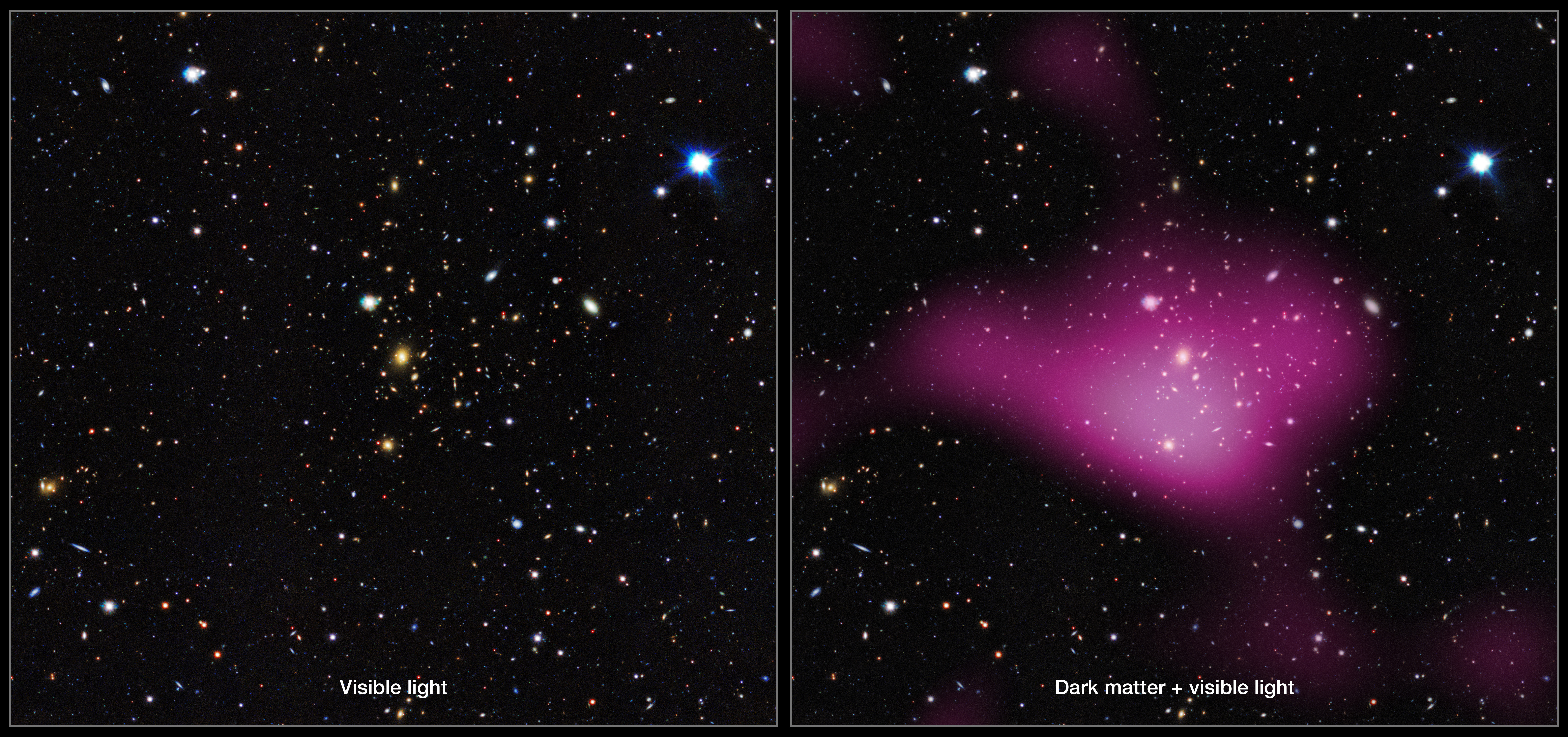 The first results have been released from a major new dark matter survey of the southern skies using ESO’s VLT Survey Telescope (VST) at the Paranal Observatory in Chile. The project, known as the Kilo-Degree Survey (KiDS), uses imaging from the VST and its huge camera, OmegaCAM to analyse images of over two million galaxies. The KiDS team studied the distortion of light emitted from these galaxies, which bends as it passes massive clumps of dark matter during its journey to Earth. From the gravitational lensing effect, these groups turn out to contain around 30 times more dark than visible matter. Left, a group of galaxies mapped by KiDS. Right, the same area of sky, but with the invisible dark matter rendered in pink.